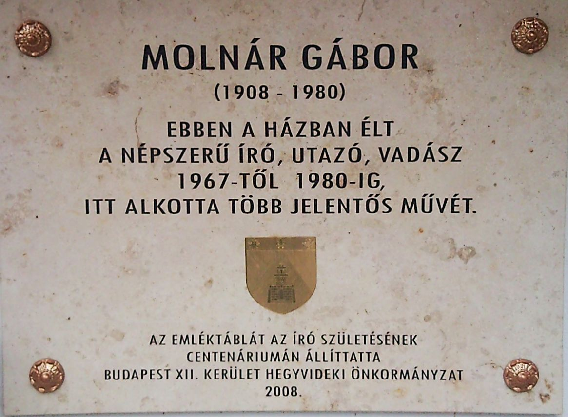 Gábor Molnár (writer) commemorative plaque in Budapest District XII, Fülemile Street No 7. (Őzike Street corner)